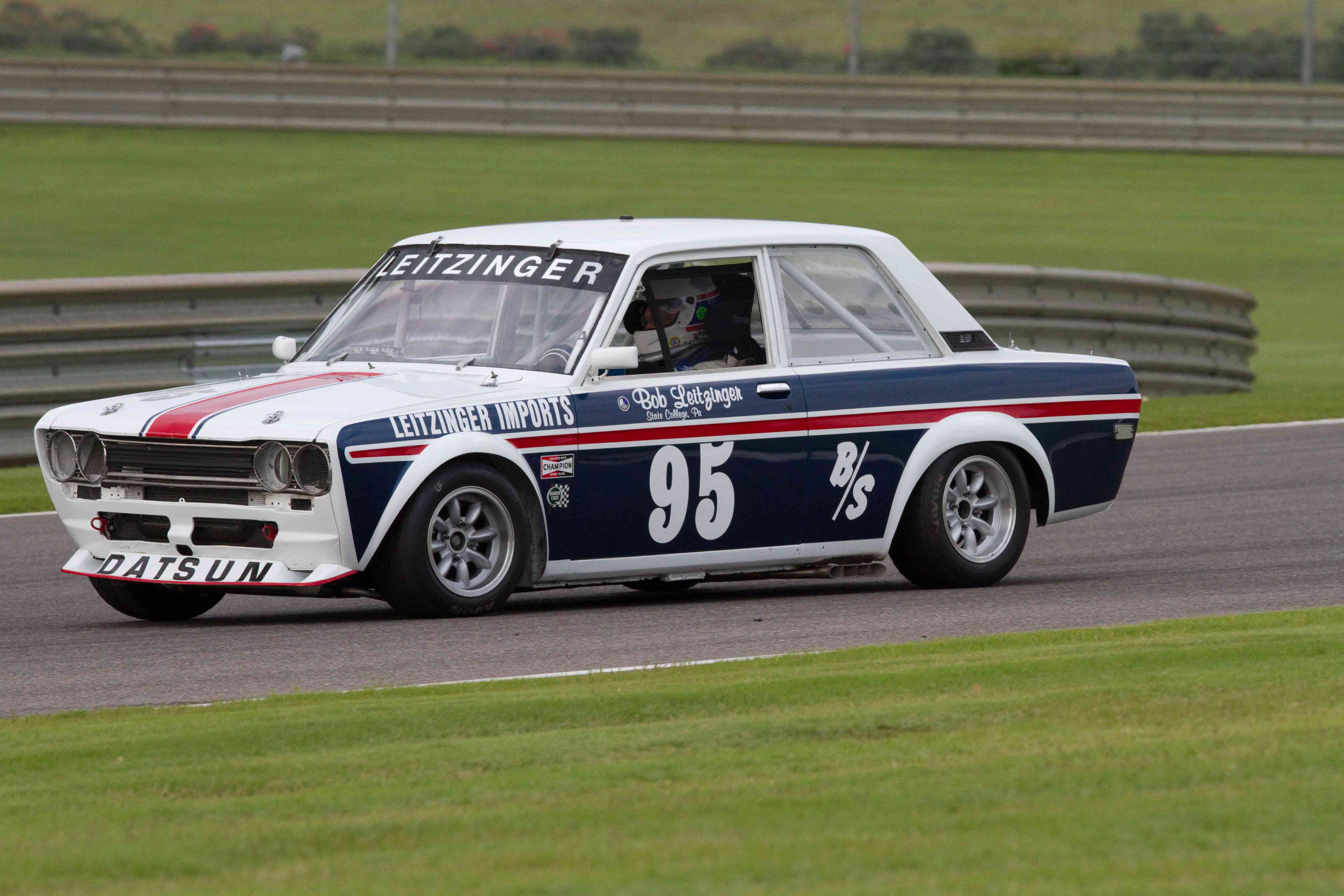 A Datsun 510 at the Barber Motorsports Park Legends of Motorsport historic racing event in 2010.